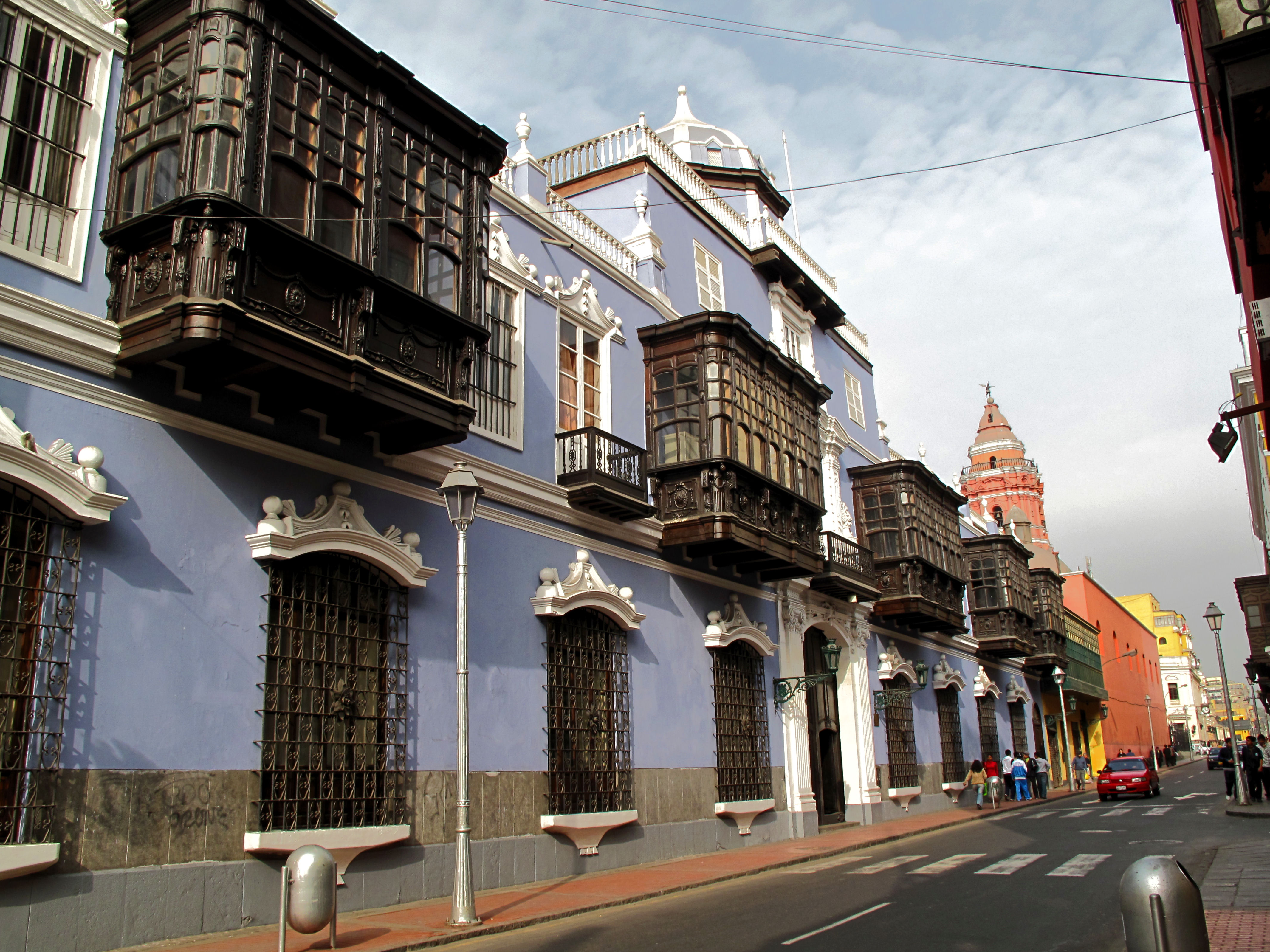 Downtown Lima